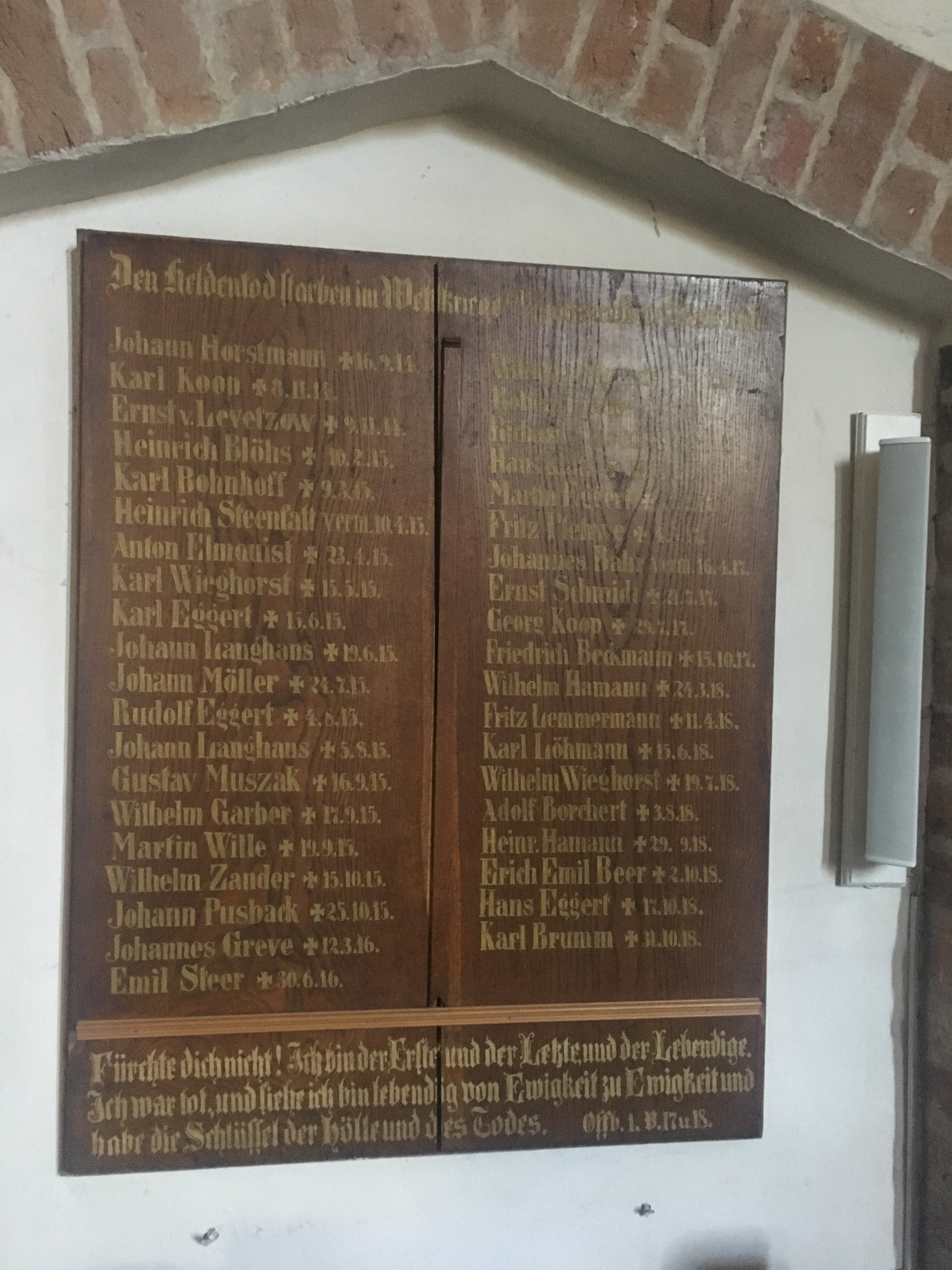 St. Clemens und St. Katharinenkirche (Seedorf)